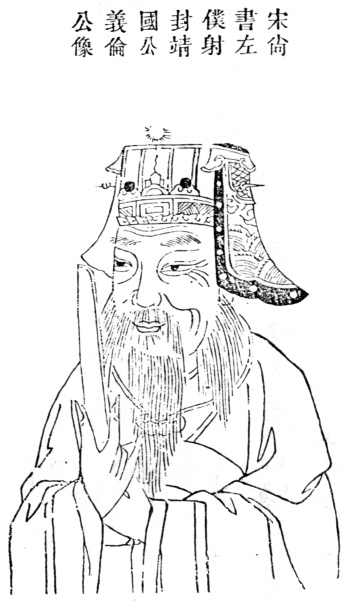 A depiction of Shen Lun (a.k.a. Shen Yilun), prime minister of the Song dynasty